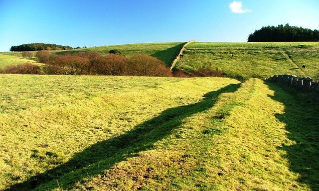 Cross Dyke Ancient earthworks on Far Black Rigg.